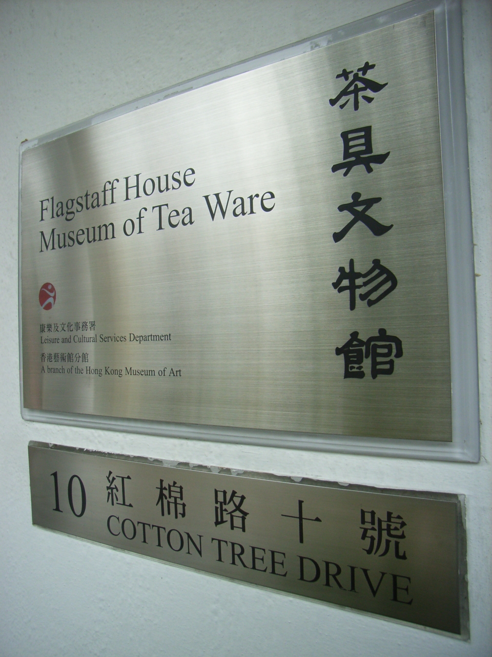 Cotton Tree Drive, Admiralty Photographer is User:Coooled